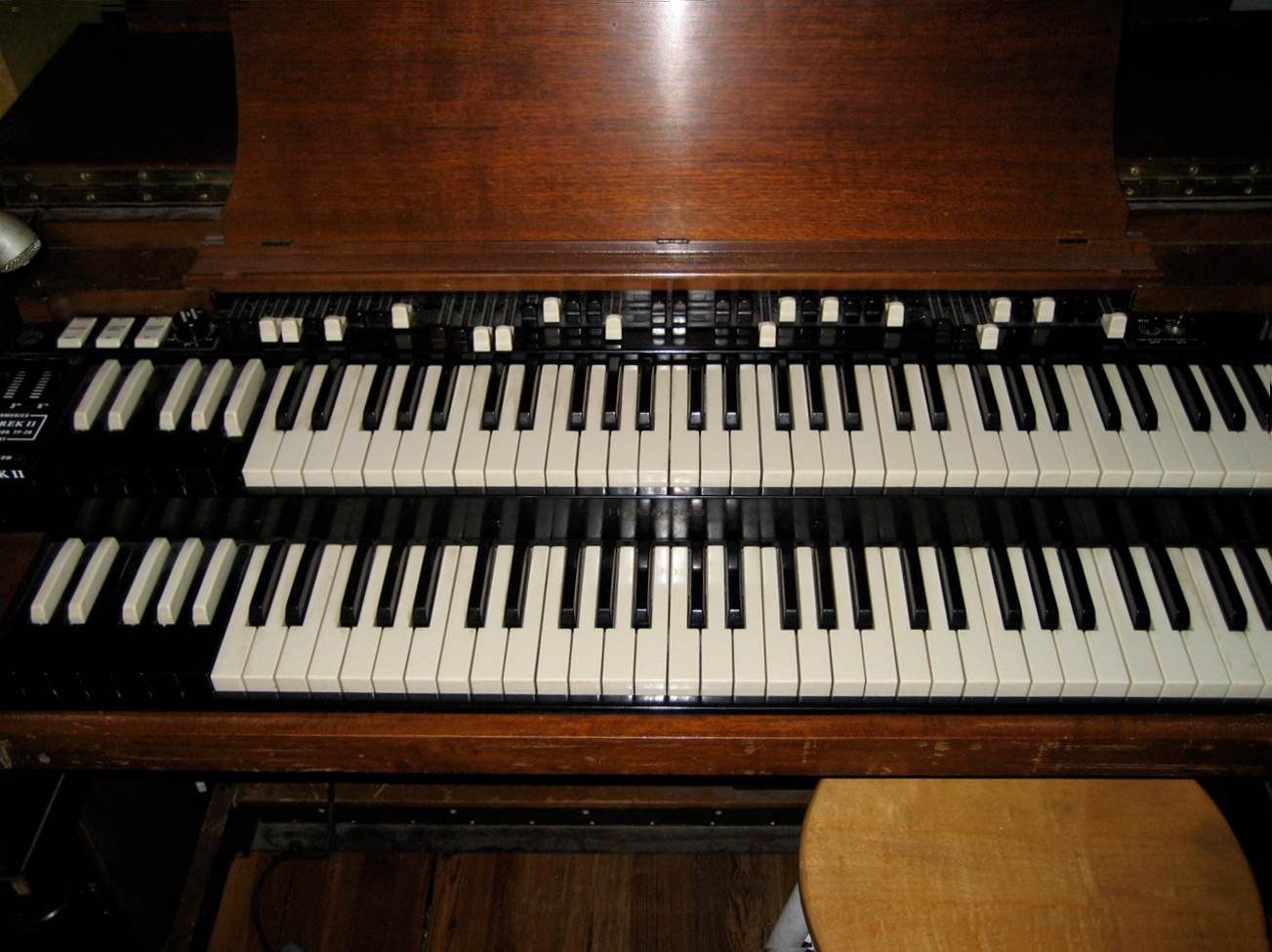 Hammond B-2 with: Trek II TP-2B Percussion Unit (seen on left of upper manual) added 2nd/3rd/5th harmonics, with adjustable decay rate at the Vibe 56 Studio